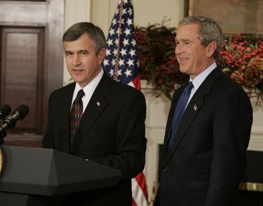 Mike Johanns speaks after being nominated by George W. Bush for U.S. Secretary of Agriculture, 2004.